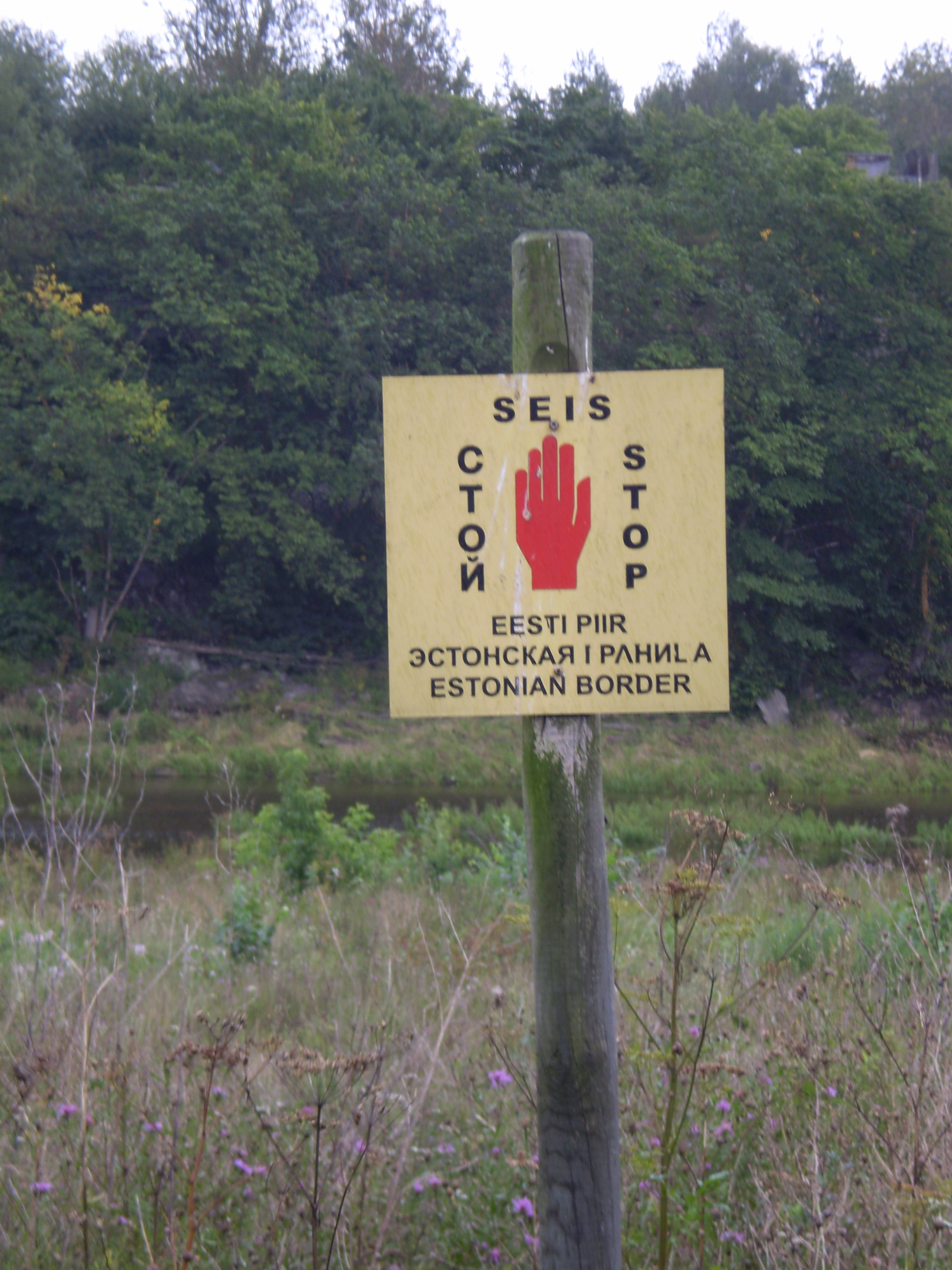 Signboard in Narva near the border of Estonia and Russia